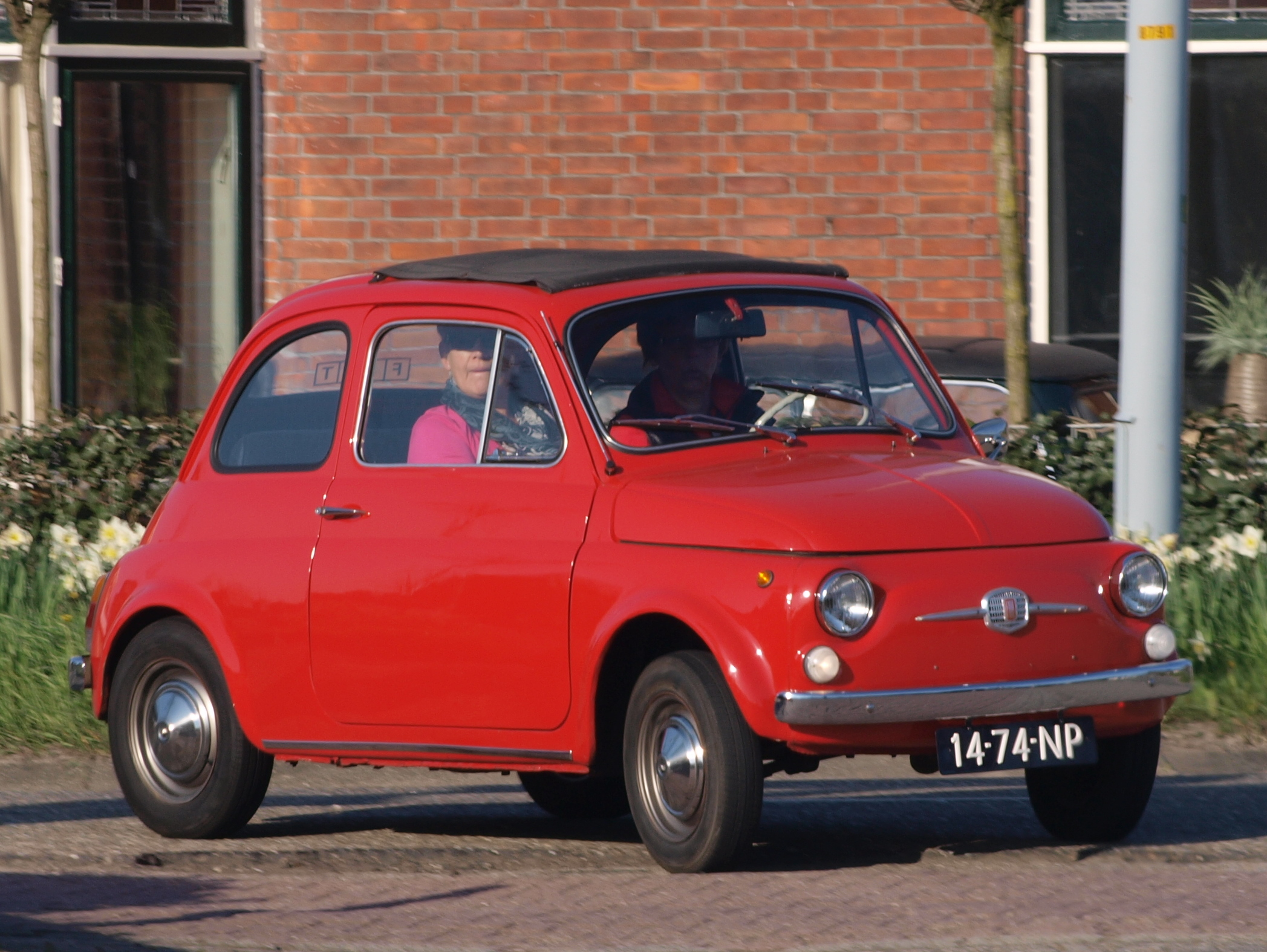 Photographed at the Hyacintenrit 2010, The Netherlands.